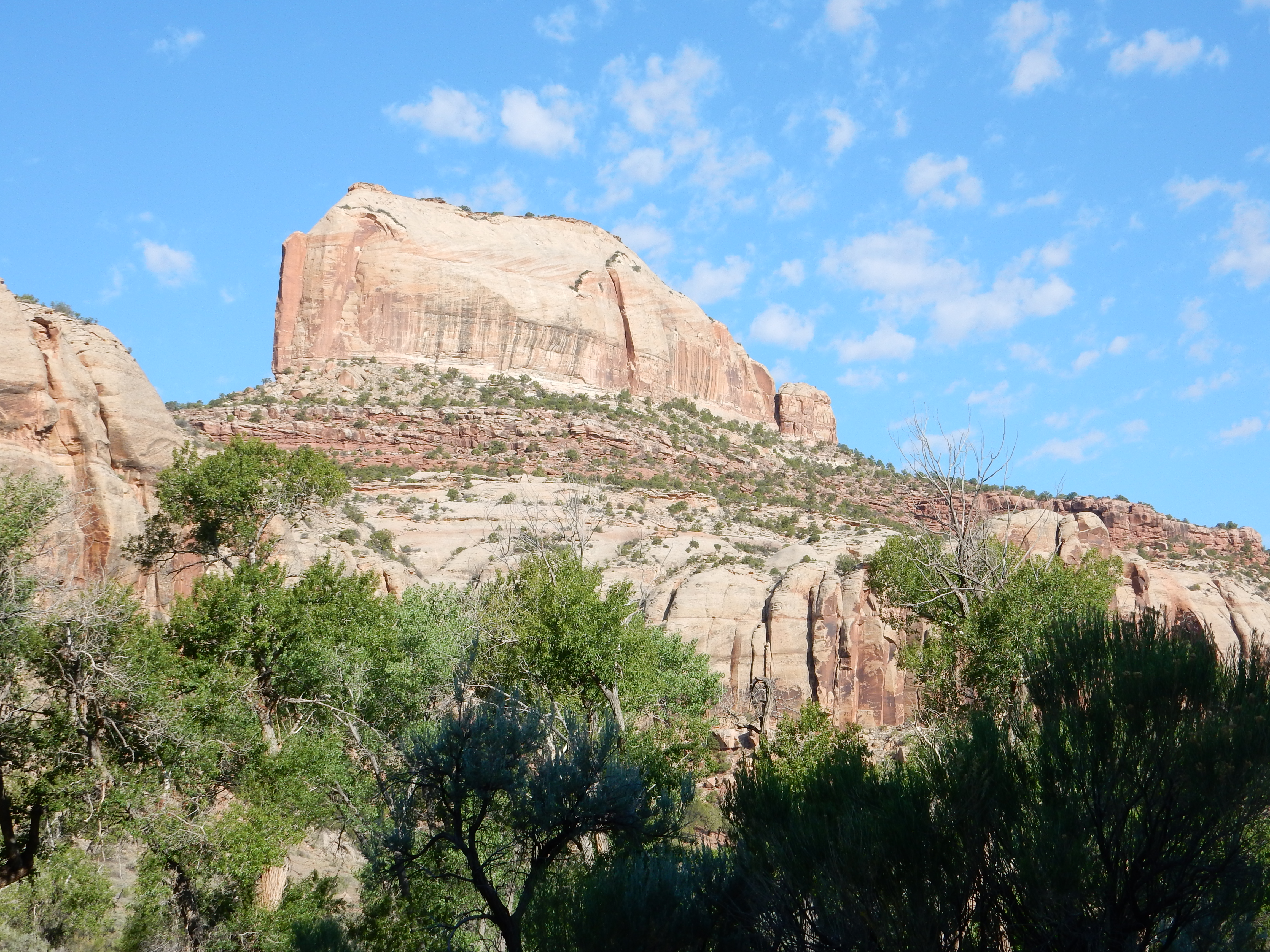 This image shows geologic formations of the Glen Canyon Group near Newspaper Rock, Utah, USA. The lower massive beds are Wingate Sandstone, which is separated by thinner red beds of the Kayenta Formation from the massive beds at top of the Navajo Sandstone. The group dates from the late Triassic to the early Jurassic.